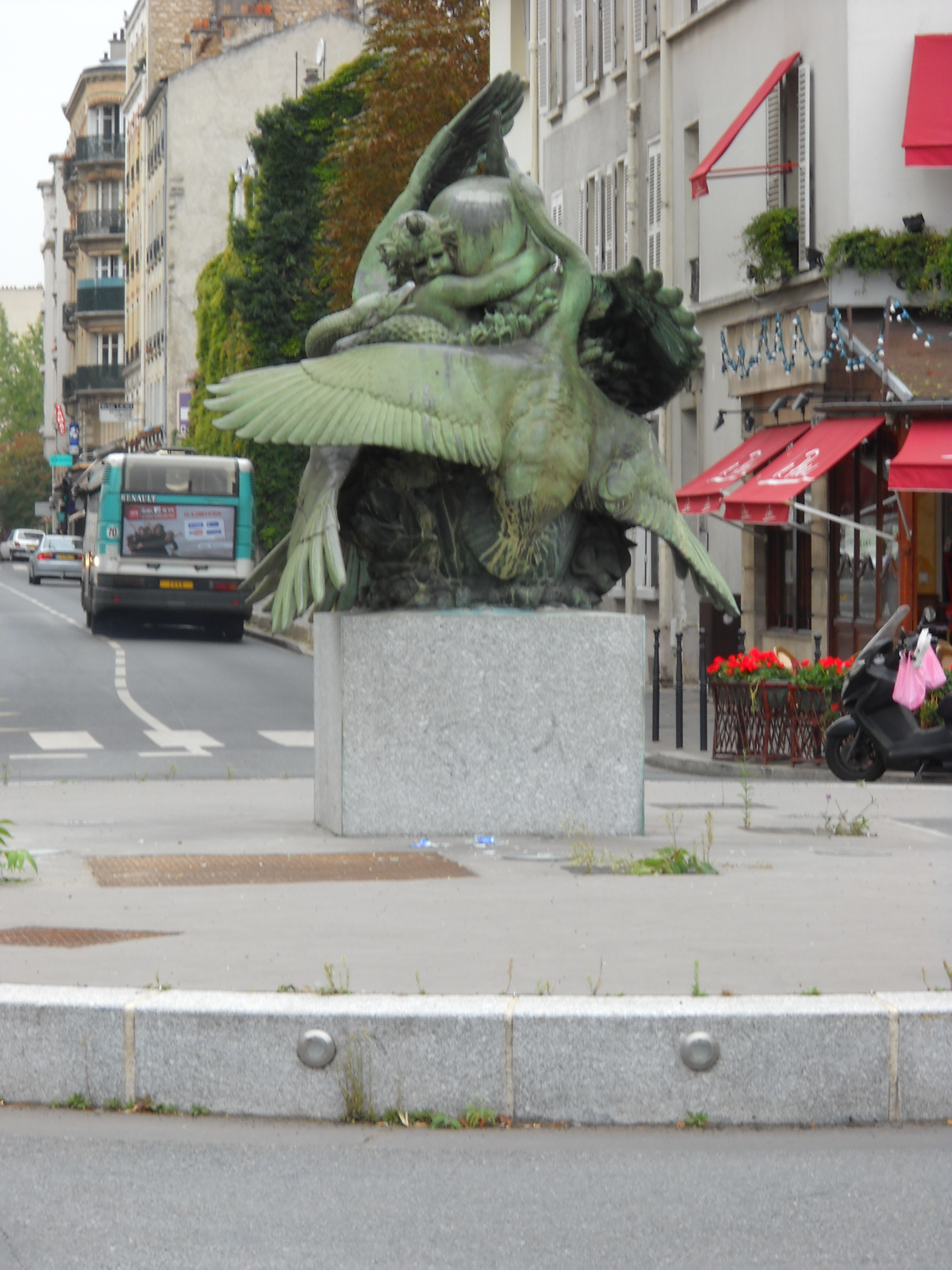 Statue on Place Denfert-Rochereau, in Boulogne-Billancourt, Hauts-de-Seine, France. Former sculpture from the Fontaine des Cygnes (1925) in Paris. French sculptor Marcel Loyau (1895-1936).